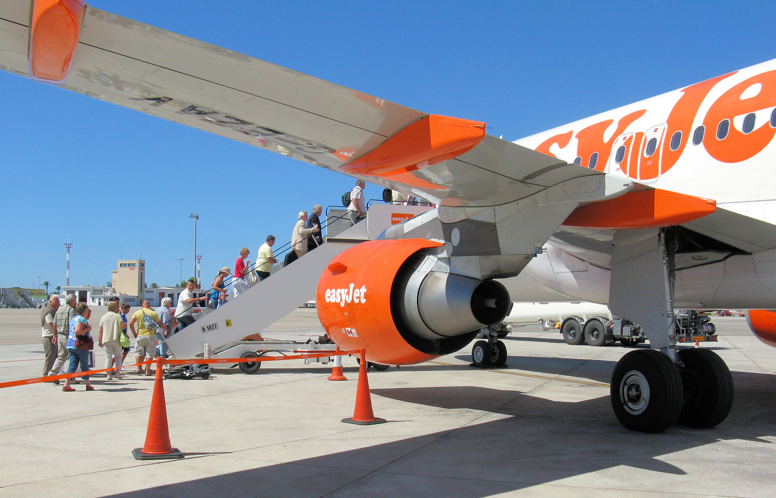 Boarding Easyjet A319-100 (G-EZAV) at Palma Airport, Majorca, for the flight to Bristol, England.